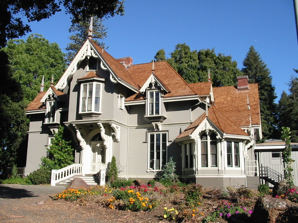 J. Mora Moss House (aka Moss Cottage) in Mosswood Park, Oakland. Built in 1864 by S. H. Williams for San Francisco businessman J. Mora Moss in the Gothic Revival style. The building was studied and documented in 1960 by the National Park Service as part of their Historic American Buildings Survey was named an Oakland Heritage Landmark on January 7 1975. It currently serves as a Parks and Recreation center.[1] Source Photograph taken by myself (Binksternet) in October, 2007.